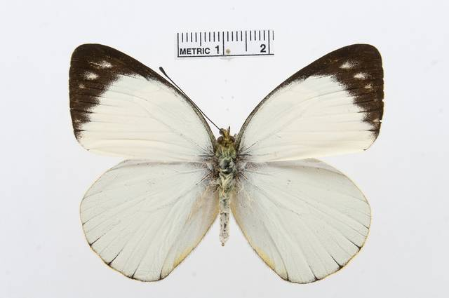 An image of a Delias levicki taken for the Smithsonian National Museum of Natural History